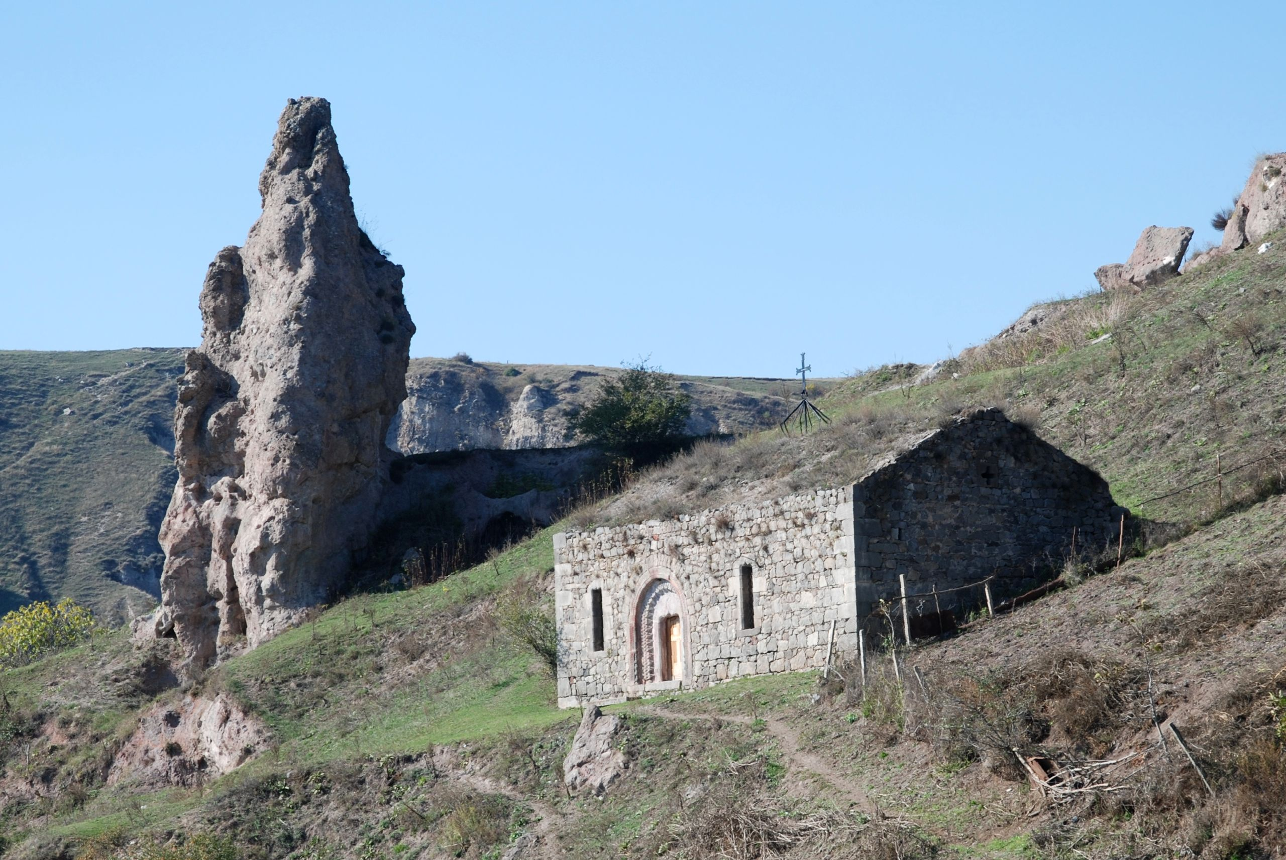 Khndzoresk, upper church